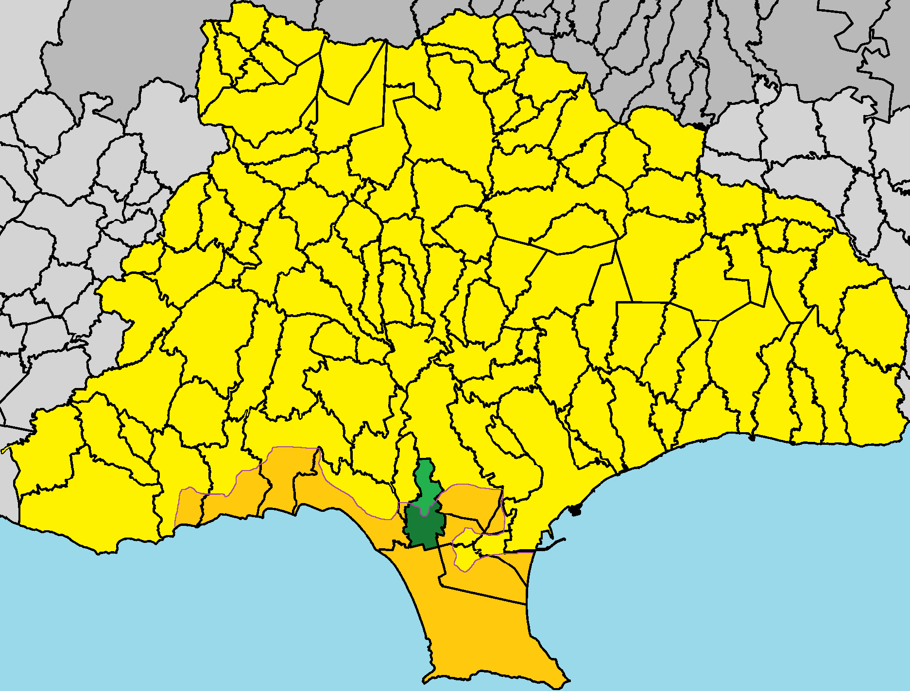 Kolossi in Limassol District.